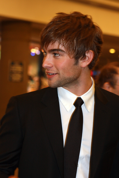 Actor Chace Crawford at the 10th Annual Angel Ball 2007 that helps raise money for the G&P Foundation for Cancer Research. Marriott Marquee Times Square, October 29, 2007